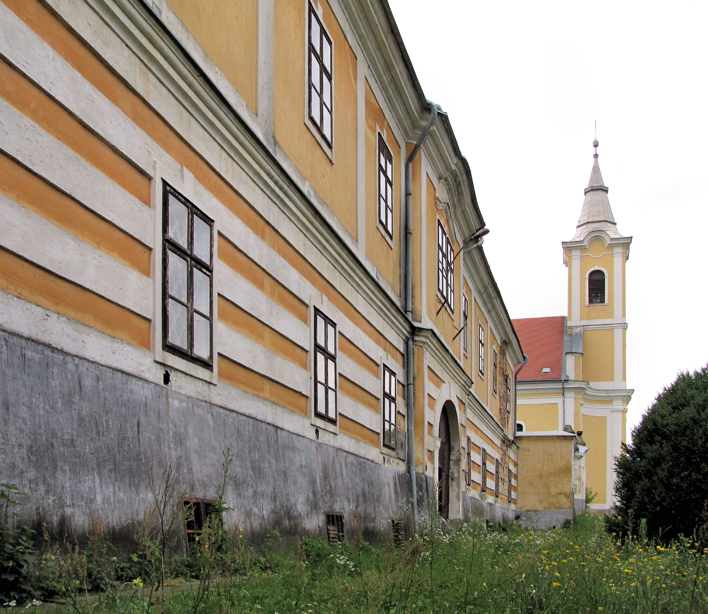 Roman catholic church and the former Cistercian monastery in Előszállás, Hungary.